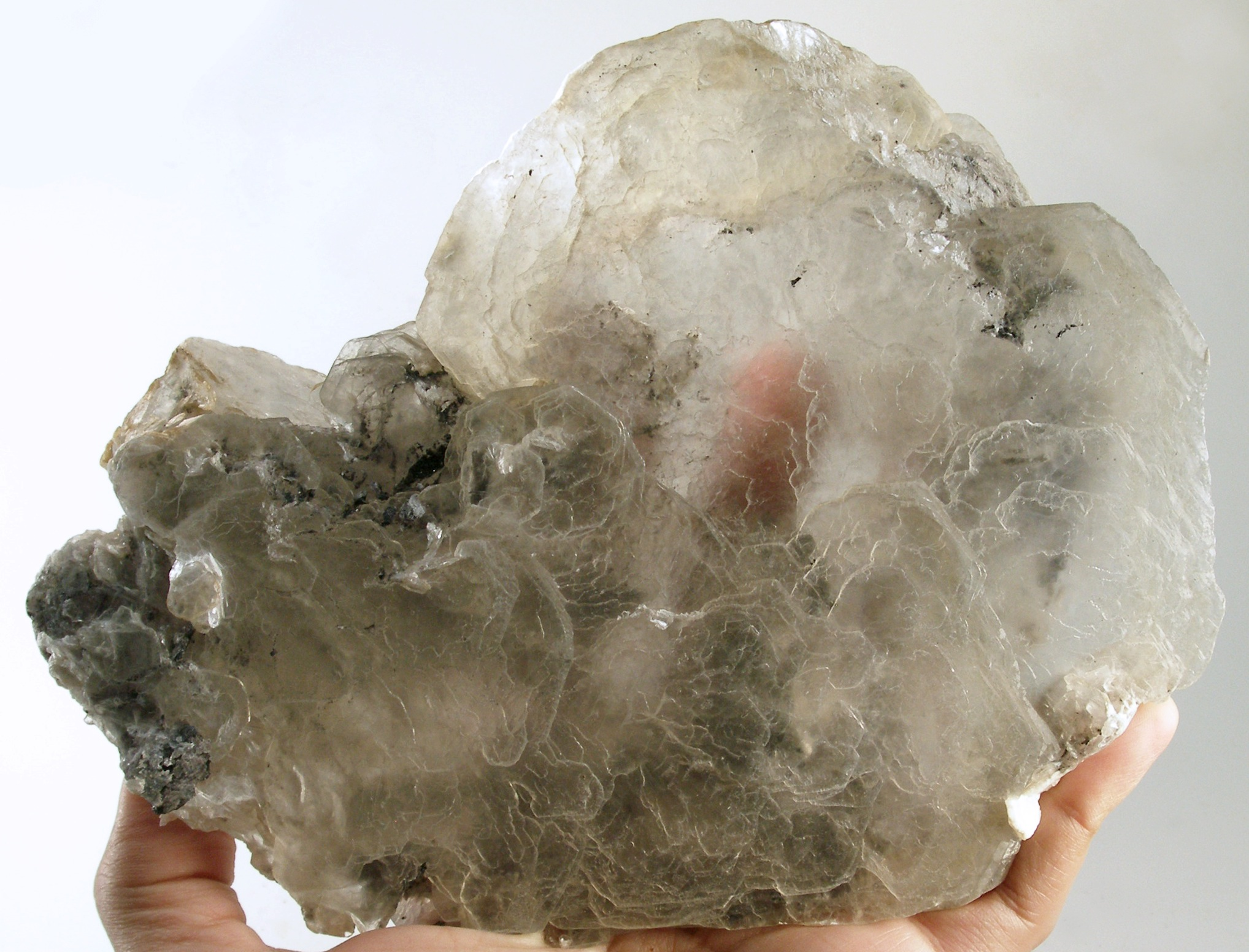 Brucite Locality: Wood's Chrome Mine (Wood's Mine), Texas, Little Britain Township, Lancaster County, Pennsylvania, USA (Locality at ) Size: large cabinet, 19.5 x 14.5 x 3.2 cm Brucite (huge crystal!) This is a major, museum-sized specimen with 5 inch brucite crystals, transparent! It is an important piece, of the kind of thing one rarely sees for sale in any size, let alone gigantic. Complete on both sides, this is one of the most displayable old examples I have seen. They were mined in the late 1800s and early 1900s. This one, as you can see, has a long history and was in the prominent collection of EM Gunnell. Although somewhat esoteric to the majority of collectors, I consider these to be prized rarities and major United States classics. For the price, you get one of the best, unarguably, of this species and locality - and the sad fact is one cannot say that about many species' acquisition today. I believe this to be one of the more significant US specimens I have been able to offer, in terms of worldwide or museum import, even if its not as sexy as a tourmaline.